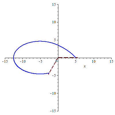 Example of generalized conic in the sense in which the term was used by Tom M. Apostol and Mamikon A. Mnatsakanian in their study of curves drawn on the surfaces of right circular cones. Parameter values: r_0=5, lambda=0.6, k=1.5